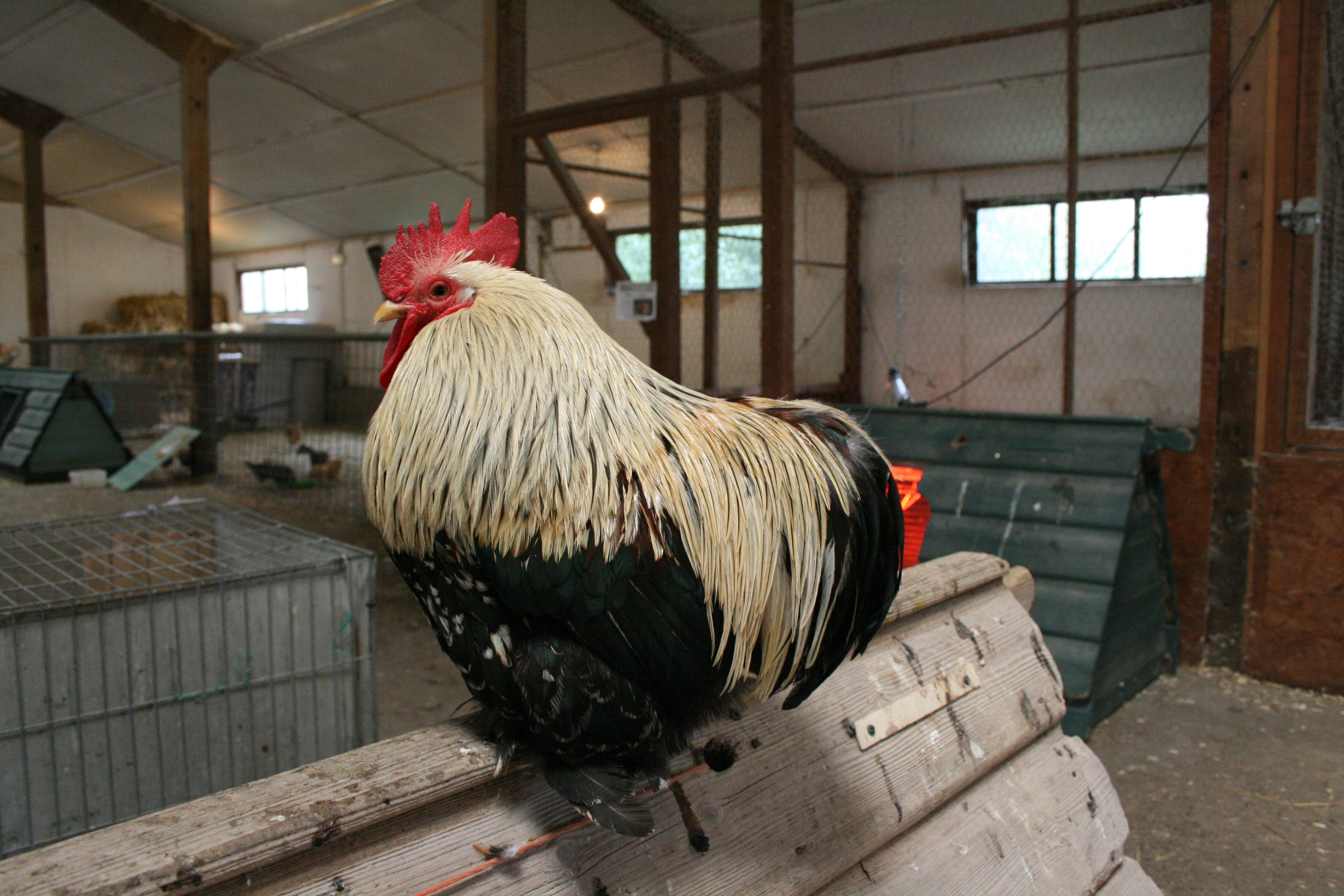 A Cochin rooster